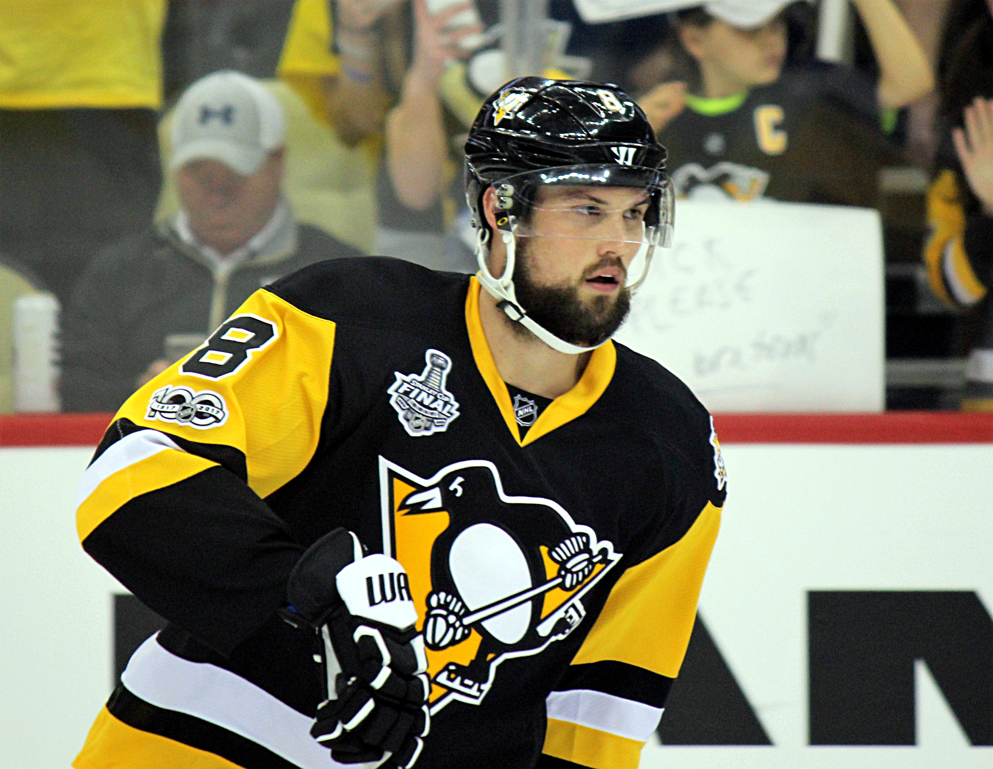 Pittsburgh Penguins defenseman Brian Dumoulin.